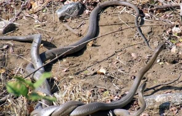 A pair of male black mambas (Dendroaspis polylepis) fighting over rights to breed.